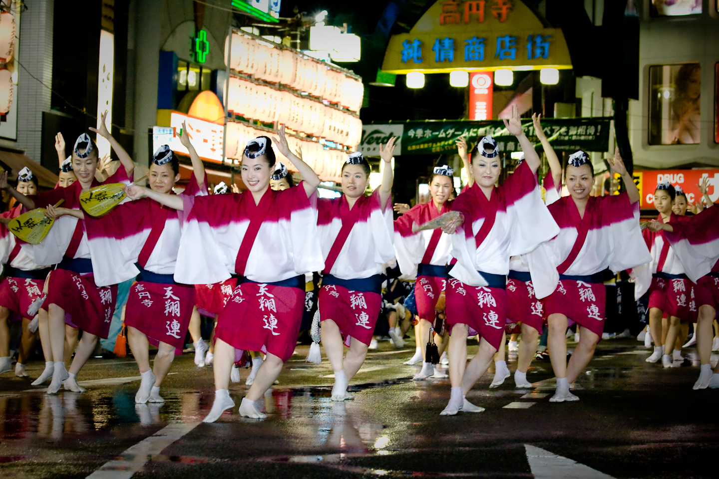 Tokyo Koenji Awaodori Dance Festival 2008